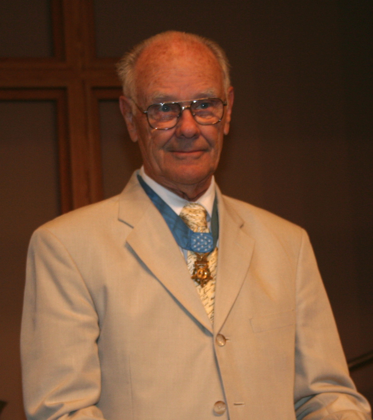 Bob Maxwell, during the Boise Bible College Medal of Honor Scholarship award ceremony.